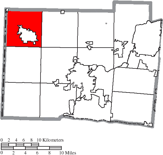 Map of the municipal and township boundaries of Butler County, Ohio, United States, as of the 2000 census, with the location of Oxford Township highlighted. Township borders are shown only in unincorporated areas in order to differentiate incorporated and unincorporated areas more clearly.